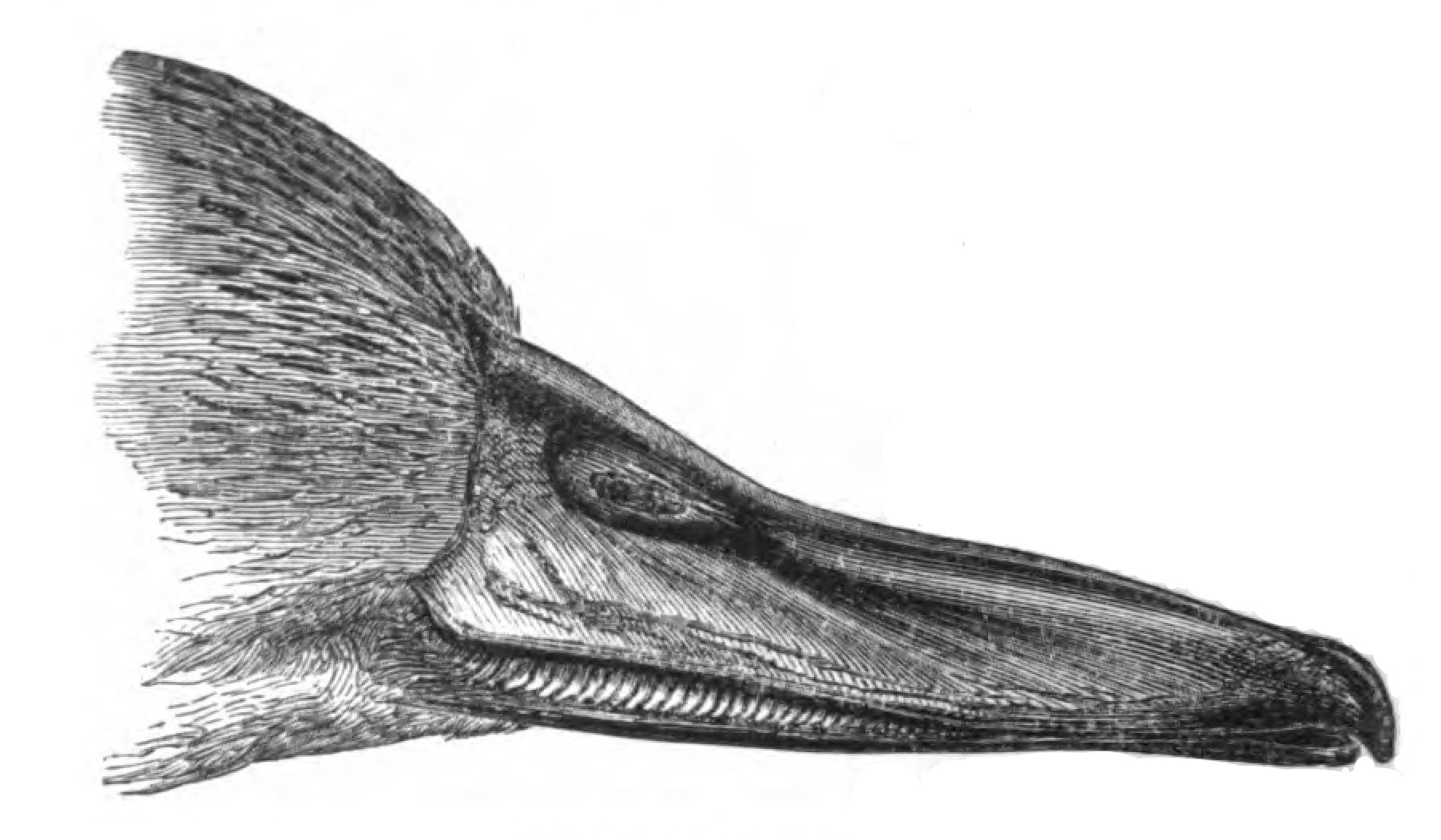 Beak of Duck. Image from Natural History, Birds.